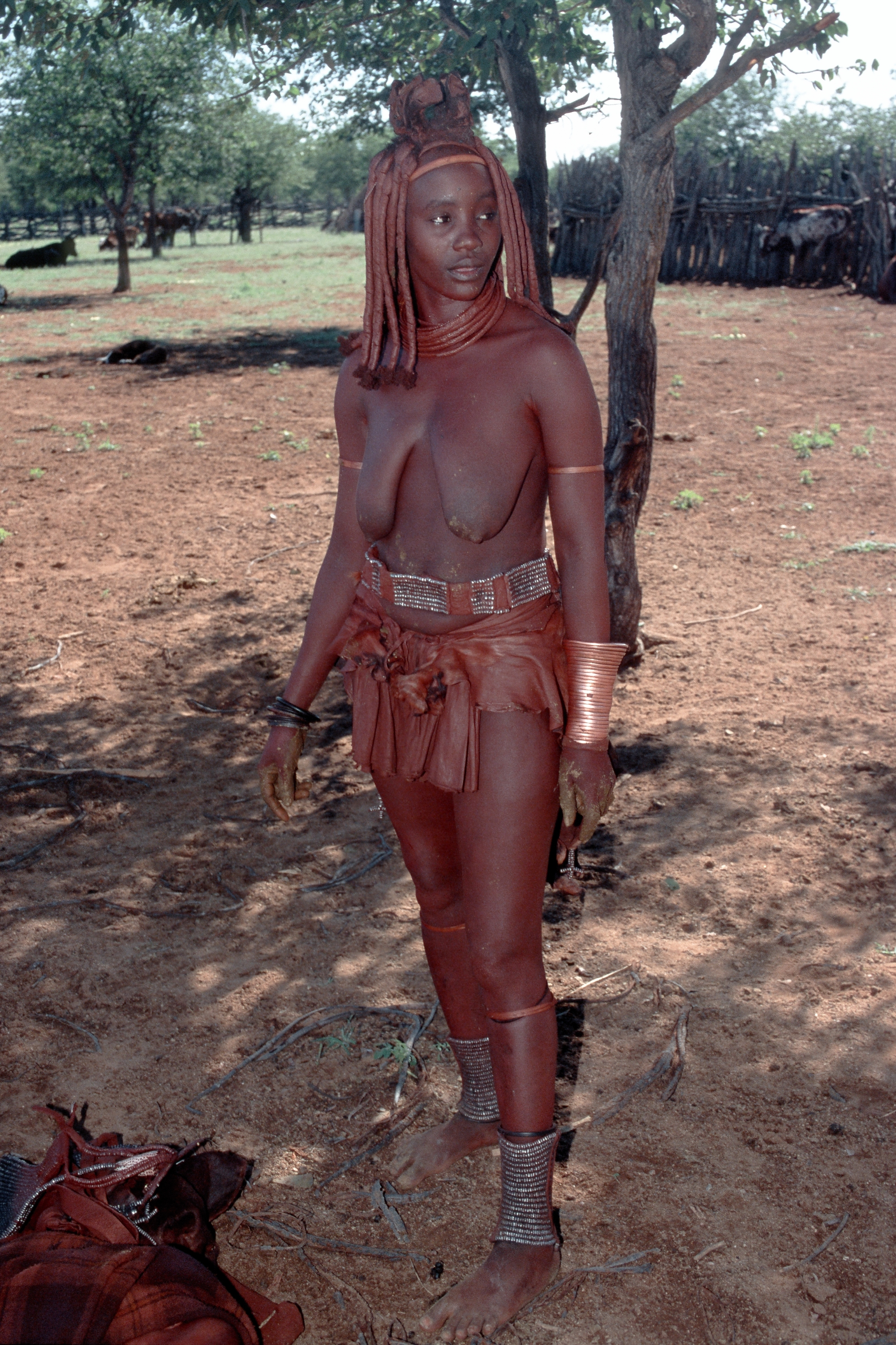 Proud Himba woman, Kaokoveld